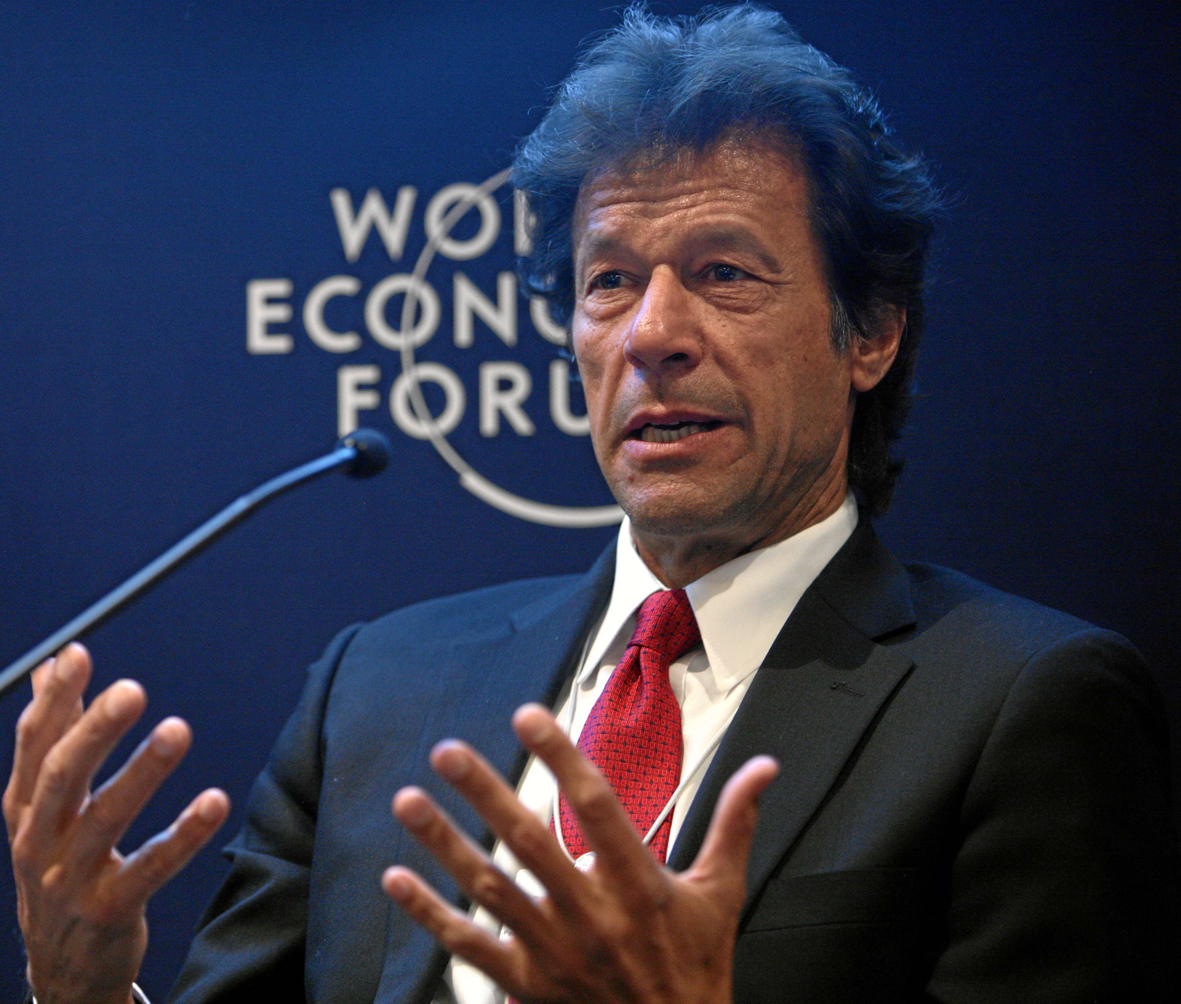 DAVOS/SWITZERLAND, 26JAN12 - Imran Khan, Chairman, Pakistan Tehreek-e-Insaf, Pakistan gestures during the session 'The Future of South Asia' at the Annual Meeting 2012 of the World Economic Forum in the congress center in Davos, Switzerland, January 26, 2012.. . Copyright by World Economic Forum. by Remy Steinegger